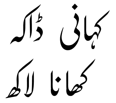 Example of words with Urdu letters gol he (top) and do-cashmi he (bottom) in word-final (left) and word-medial (right) positions